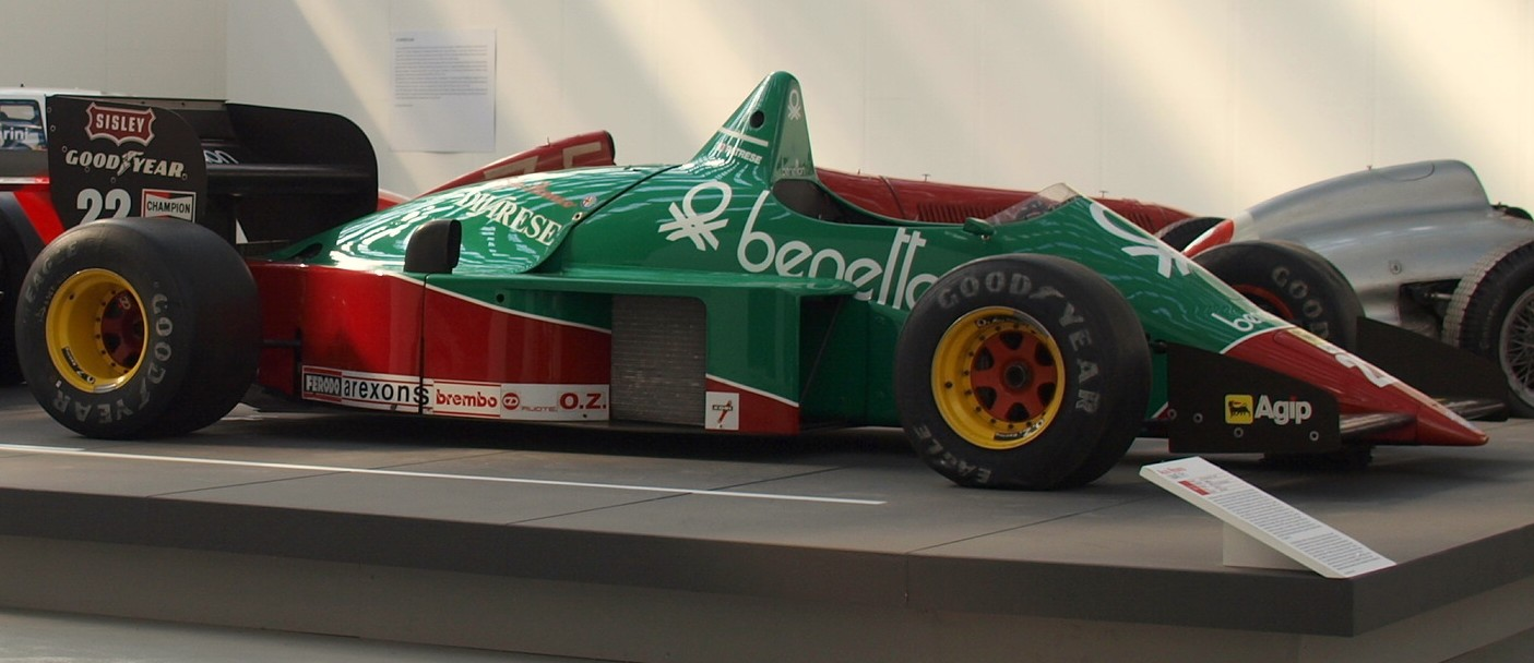 The Alfa Romeo 185T exposed at National Car museum of Turin